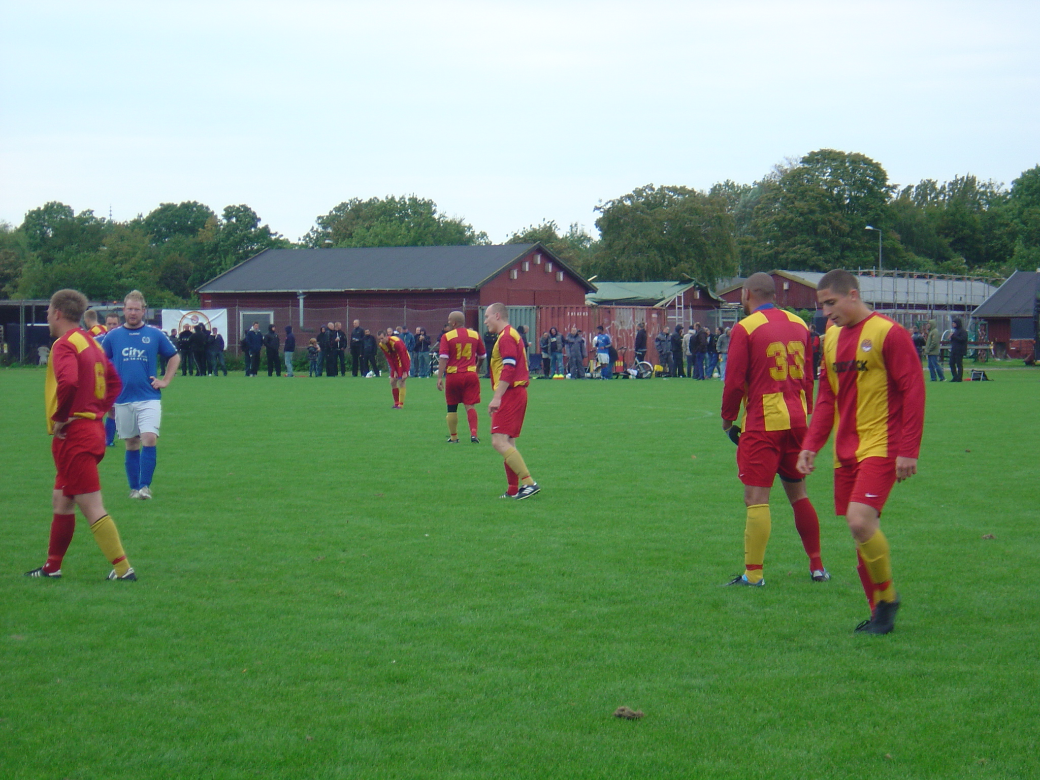 Christiania Sports Club against Christianshavns Idræts Klub — match action during a DBU Copenhagen Serie 2 local derby (level 7) league match between the two Danish Association football clubs of Christiania SC (CSC) and Christianshavn IK (CIK) on 17 September 2011 at Kløvermarkens Idrætsanlæg, that ended in a 3-0 win for CSC.